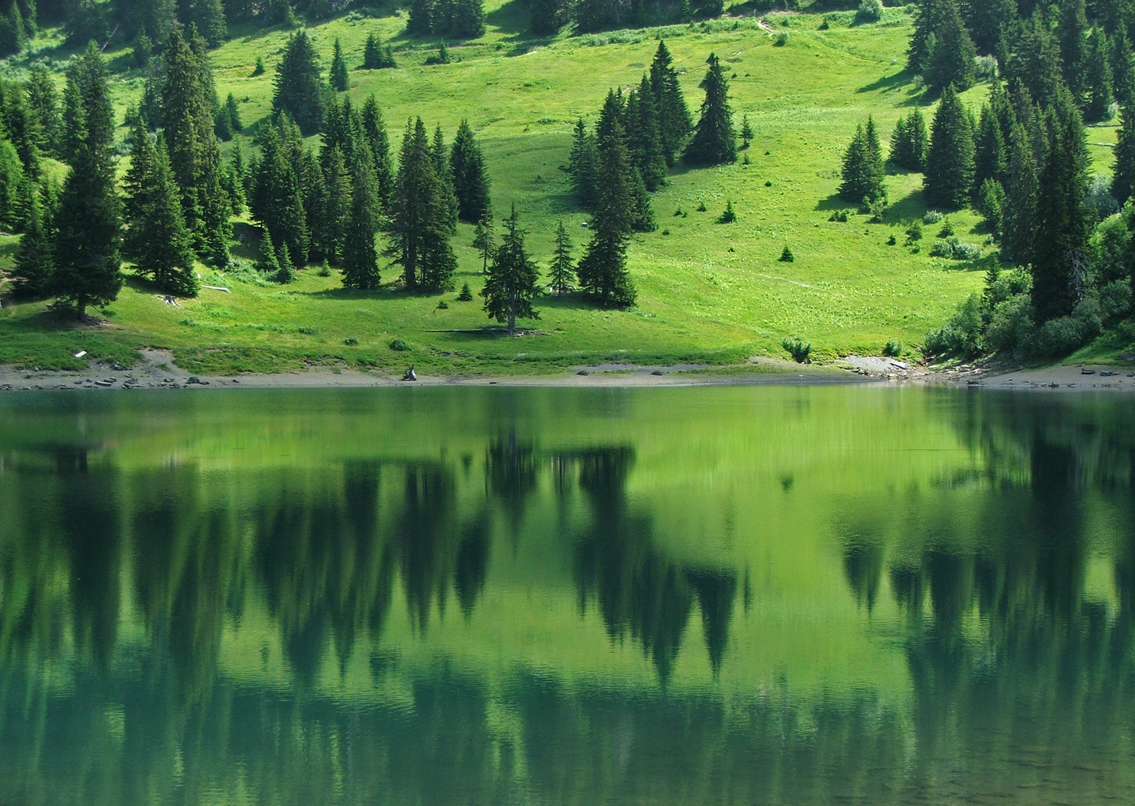 Lac des Chavonnes